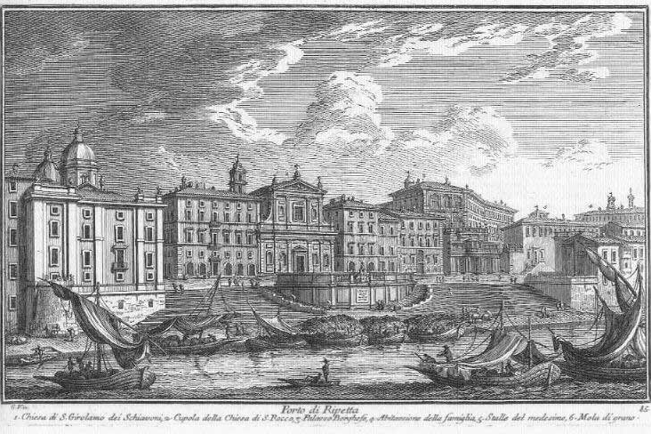 1) S. Girolamo degli Schiavoni; 2) Dome of S. Rocco; 3) Palazzo Borghese; 4) Buildings for the servants of the Borghese family; 5) Stables of the Borghese family; 6) Mill.